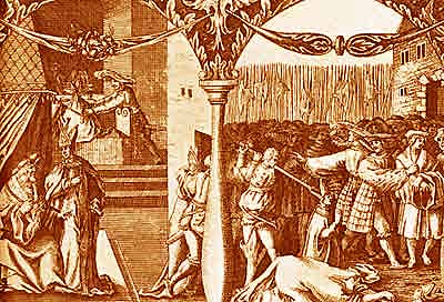 Stockholm Bloodbath, left image.